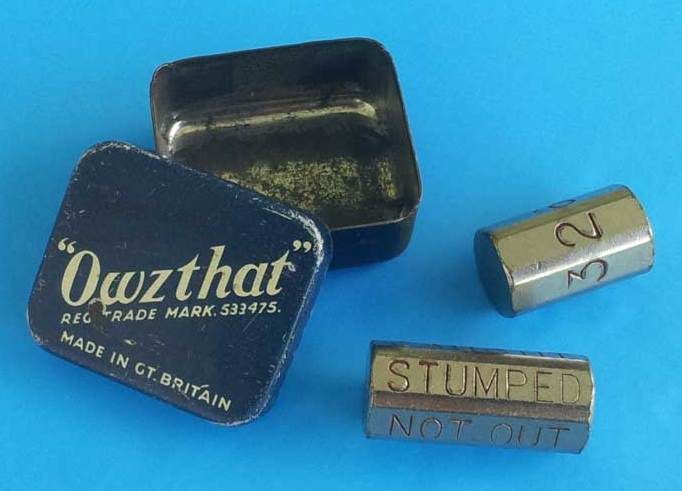 open tin box containing two 'Owzthat' metal dice. Vintage unknown.